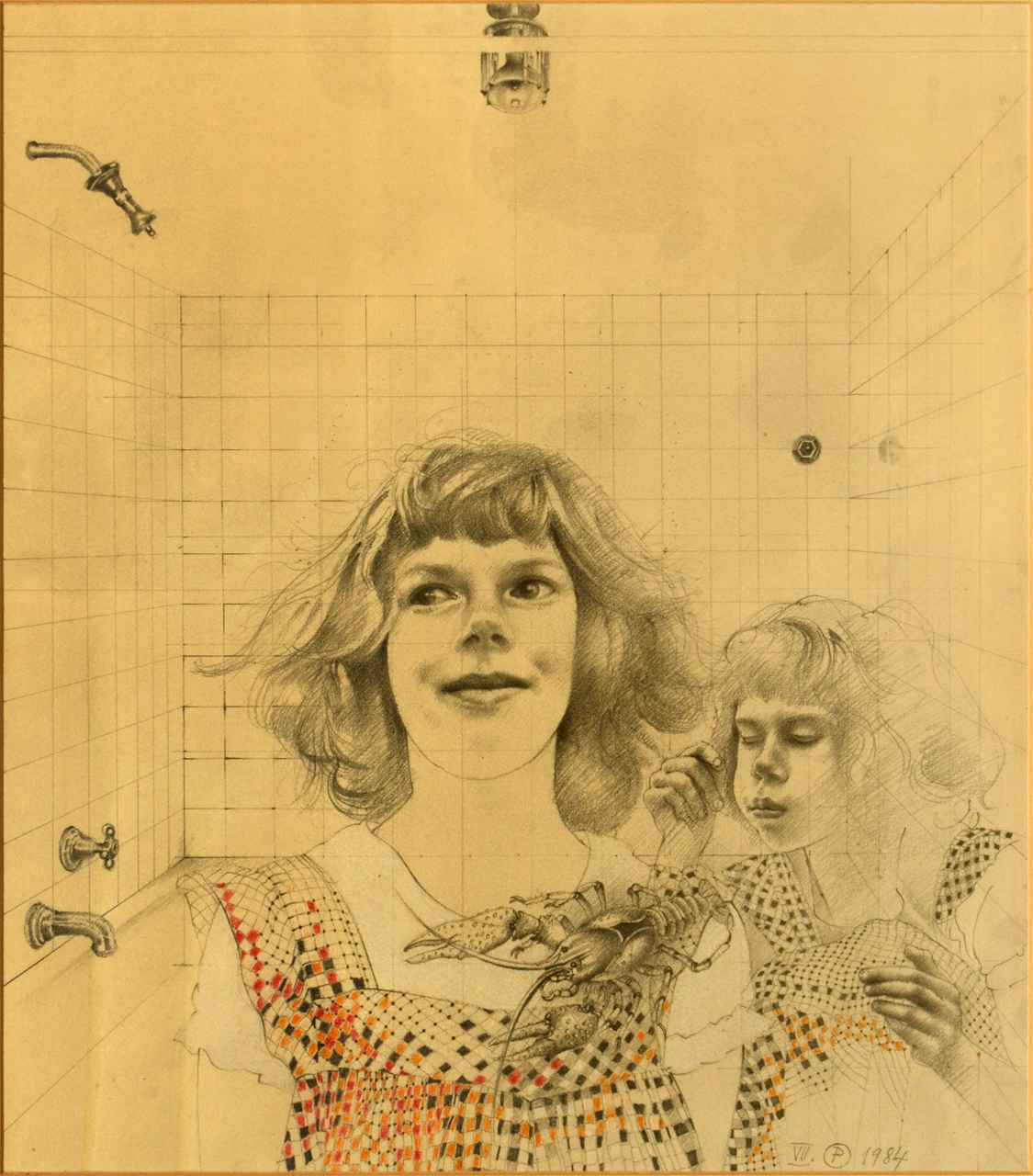 No title, drawing by Czech painter Petra Oriešková, 1984